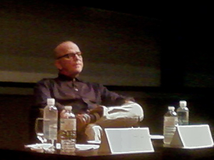 Emmy Award-nominated American director Allen Coulter at the Vancouver International Film Festival giving a masterclass.